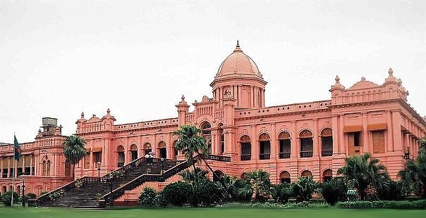 Ahsan Manzil (The Pink Palace), Dhaka, Bangladesh. R Mamun